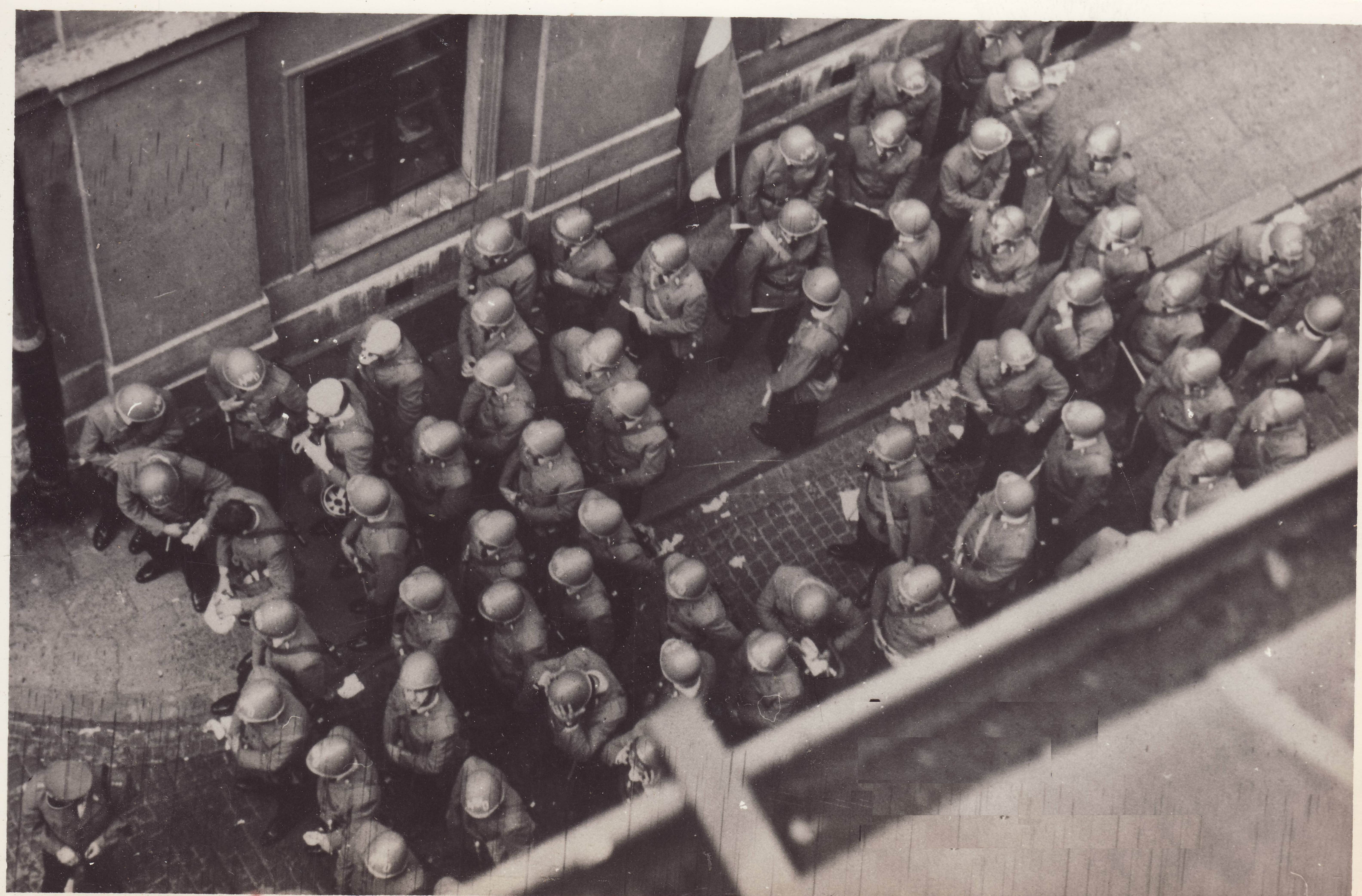 Set of photographs mostly documenting street demonstrations and police actions in Poland during the martial law of 1981-1983.